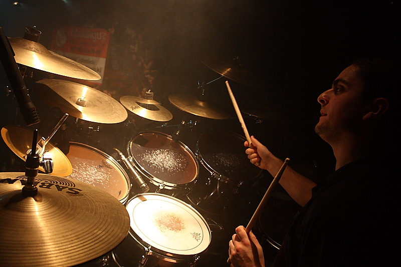 Frontside metalcore band